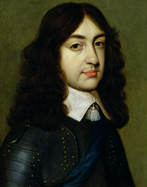 Portrait of Charles II of England.